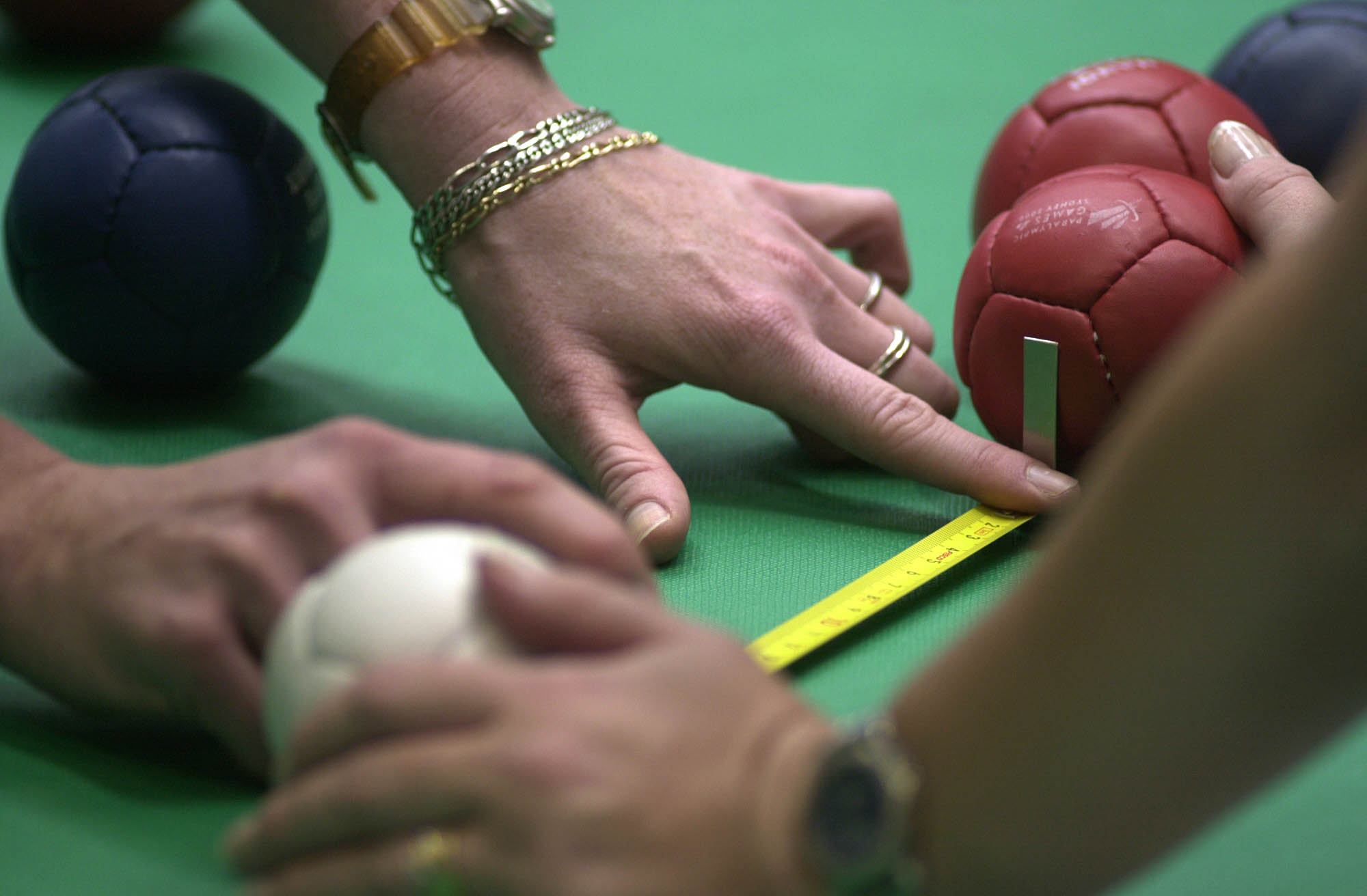 Measuring distance between boccia balls using boccia equipment during 2000 Sydney Paralympic Games match